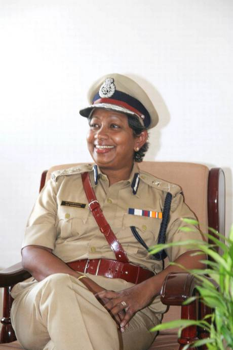 Jija